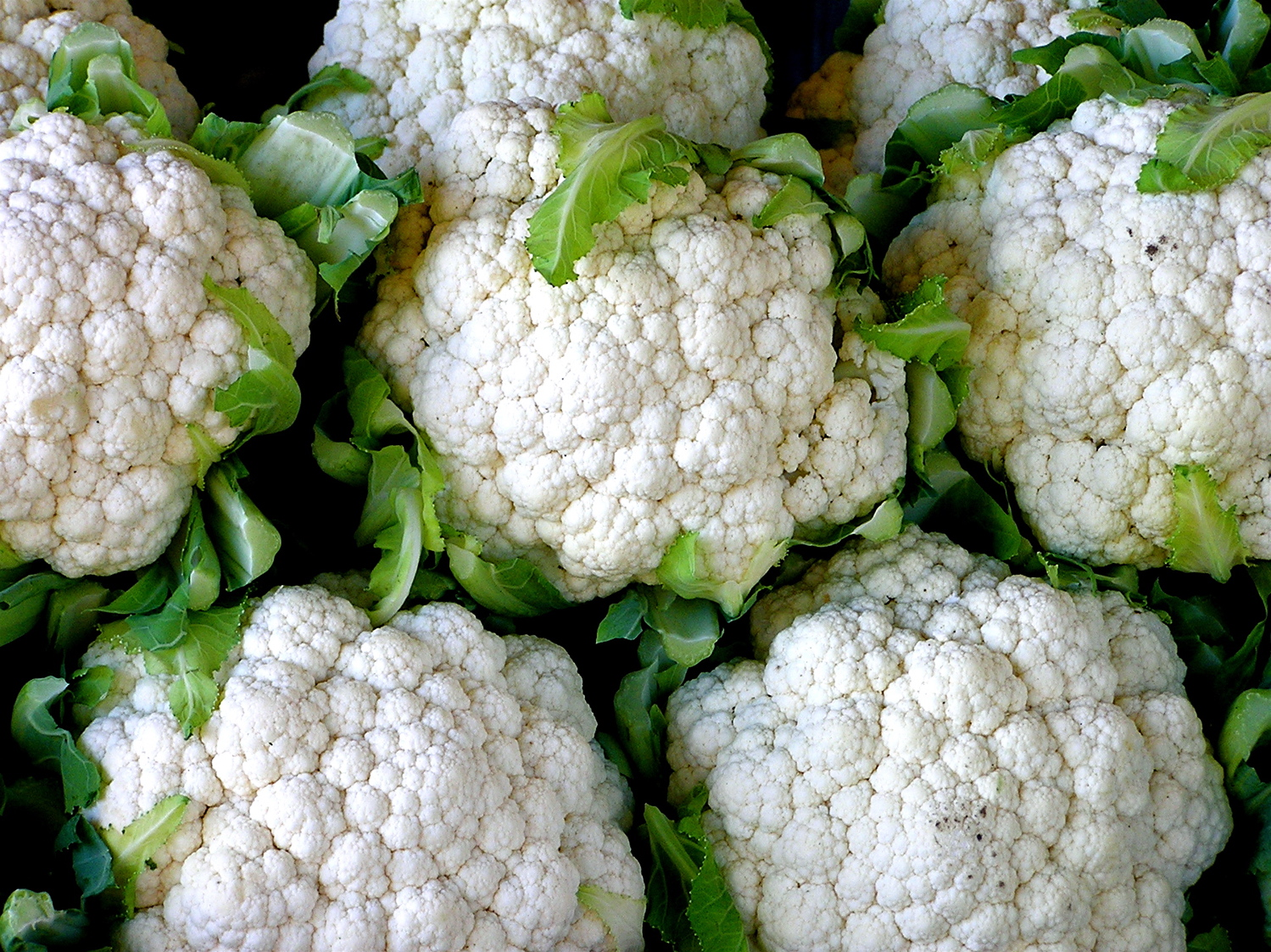 Cauliflowers.